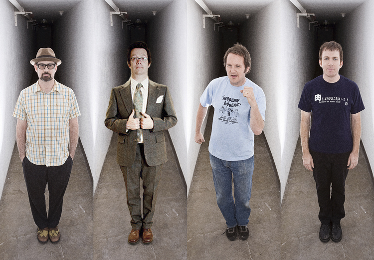 Current Nerf Herder lineup (L-R): Steve Sherlock (drums), Ben Pringle (bass), Parry Gripp (vocals, guitar), Linus Dotson (guitar).